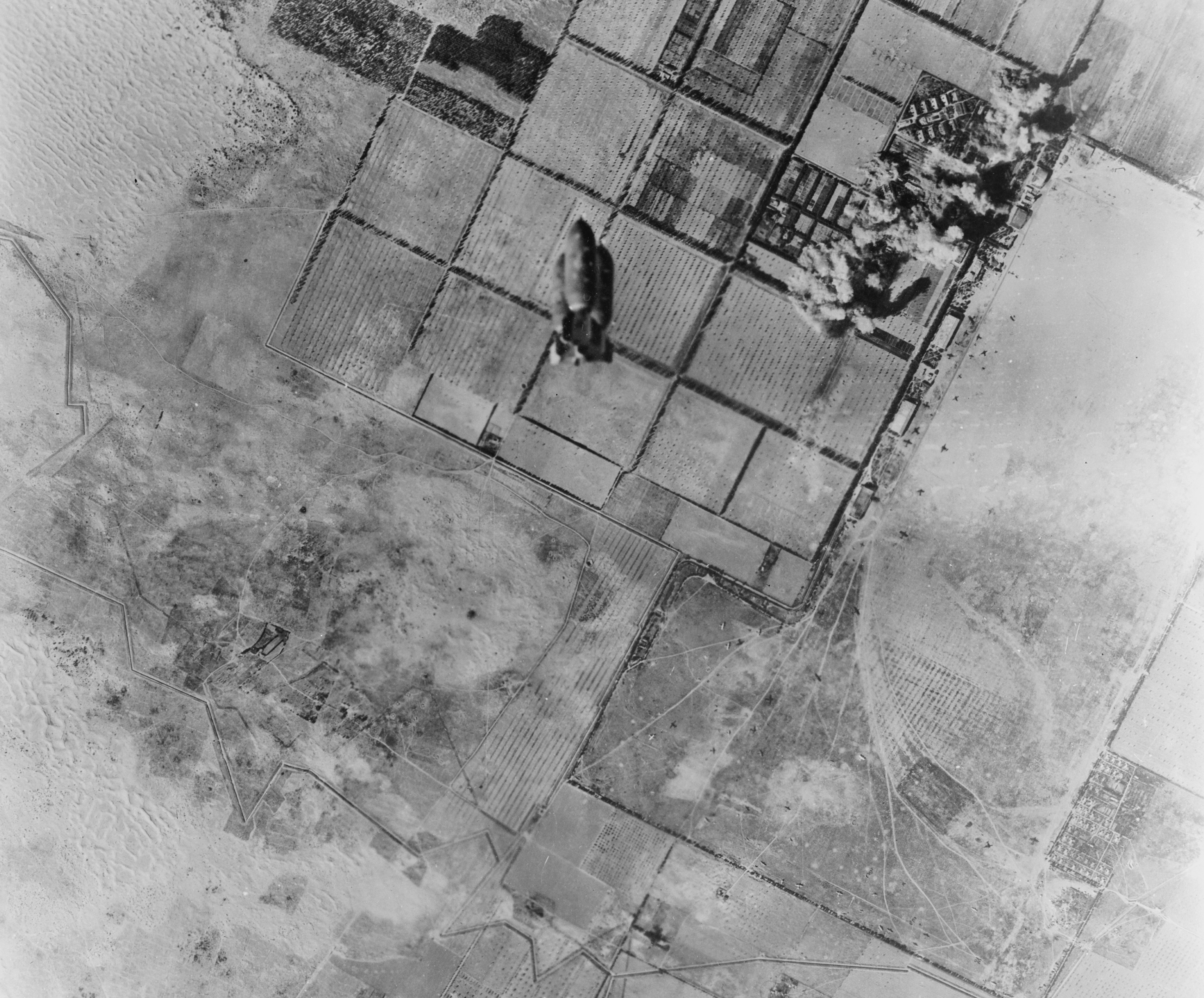 The Italian Castel Benito airfield at Tripoli, Libya, under attack ba USAAF bombers, in early 1943.